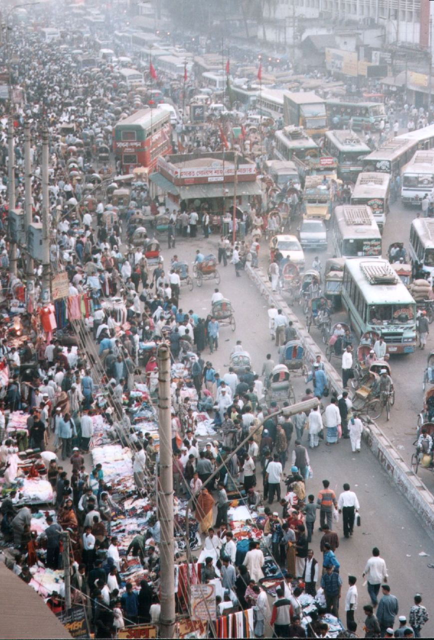 Dhaka streets (Bangladesh). There is no way to imagine Dhaka's crowds repeating themselves without hearing their sounds. Staying the night in the hotel room from which this photo is taken doesn't give you sleep. Instead it teaches you what KAKAPHONIA really means: it means hearing any possible human sound you can think of at the same time, so that you provide yourself with the feverish threats for your culture shock (also if you're accustomed to India). You'll hear what you think of - and you don't stop thinking. Actual sounds - including (in the middle of the night) marriage parties, political demonstrations, sirens, drums, shouting, market screams, passengers and ricksha drivers hitting busses, claxoning, and who knows what kind of anguish - all combine into every known and not-yet-known rhythm. To be sure, you know the same pattern is repeated endlessly along Dhaka's long roads where urban specialisation is not measured into neighbourhoods yet around every single building: in front of it: on the street, the pavement, below the pavement's market; the building's ground floor markets, its back yard, the first, second and higher floors, all with floor-specific businesses and characters, yet seemingly similar in every next building.